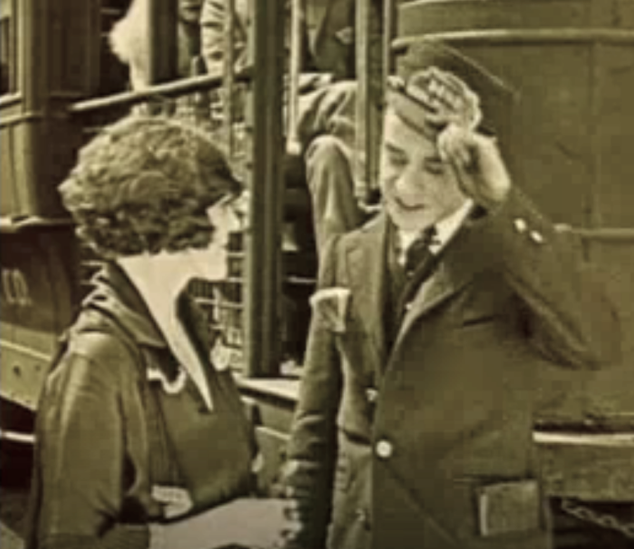 screenshot of action in the film "Conductor 1492", released in 1924 by Warner Bros. Pictures. The two romantic leads from Conductor 1942, played by Johnny Hines and Doris May, are engaged in conversation.